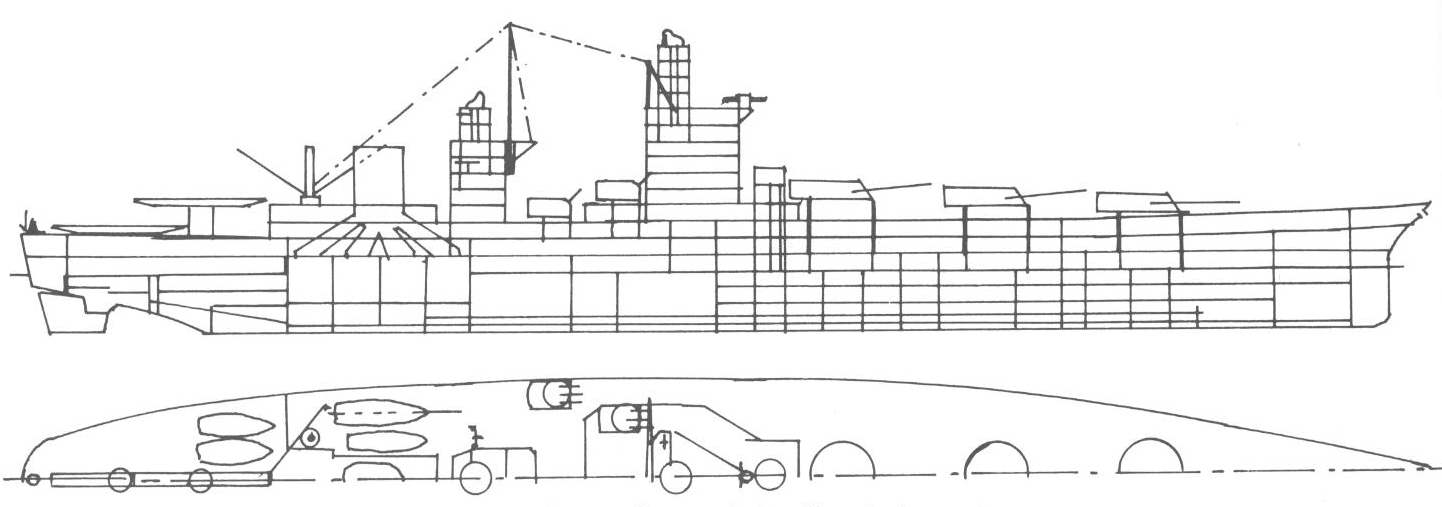 "Scheme A, the 32,500-ton fast battleship that began the North Carolina design series." Friedman, Norman (1985). U.S. Battleships: An Illustrated Design History. Annapolis, Maryland: Naval Institute Press. p. 246. ISBN 0870217151. OCLC 12214729.